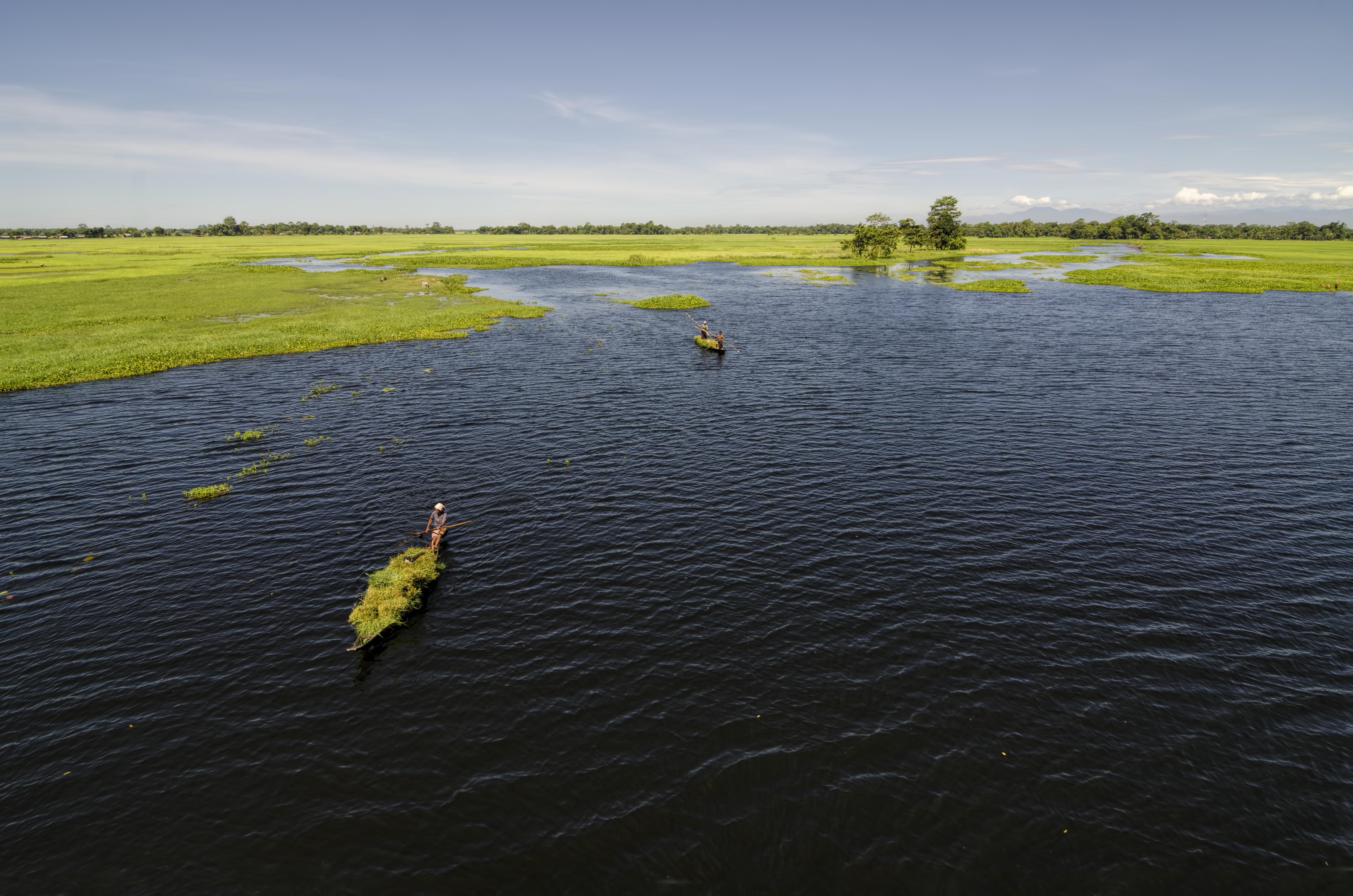 A Mishing tribe woman is carrying out wetland grasses on her boat from wetlands near Doriya River of Majuli Island in North Eastern State Assam, India on a sunny day morning. Wetland grasses are good food for their pets to increase the production of milk. Selling Dairy/Milk of their pets like cows, buffaloes is the mainstream business for few communities in Assam and India.